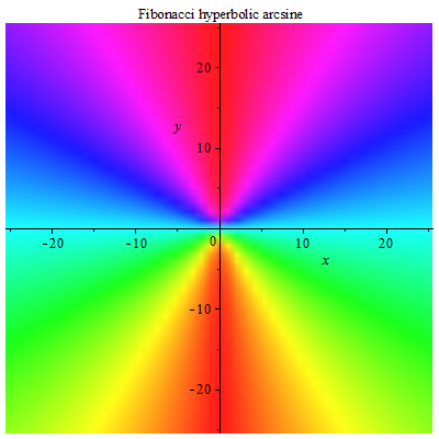 Fibonacci hyperbolic arcsine 2D density plot